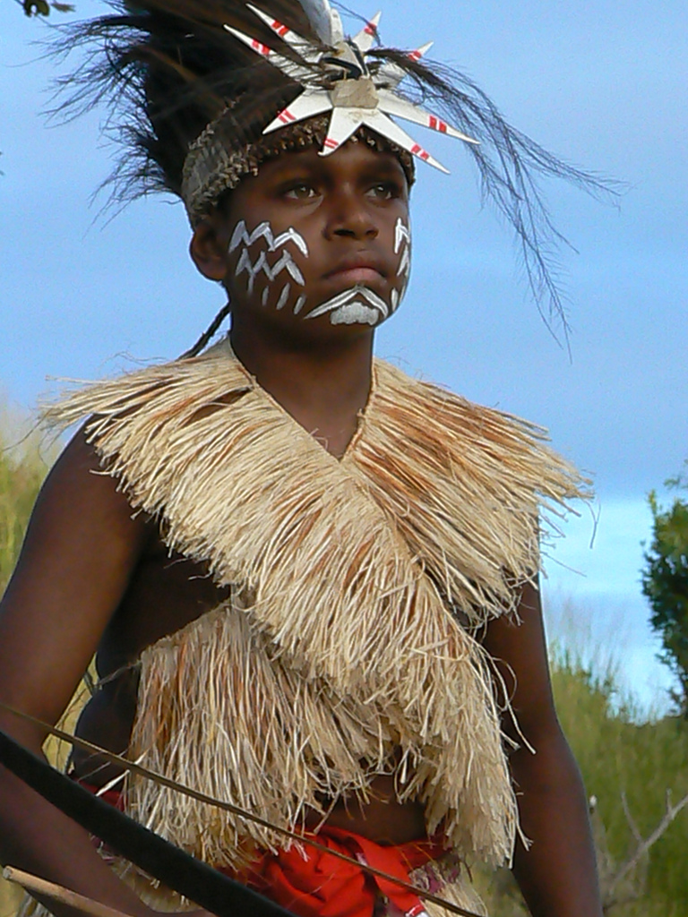 Boigu dance